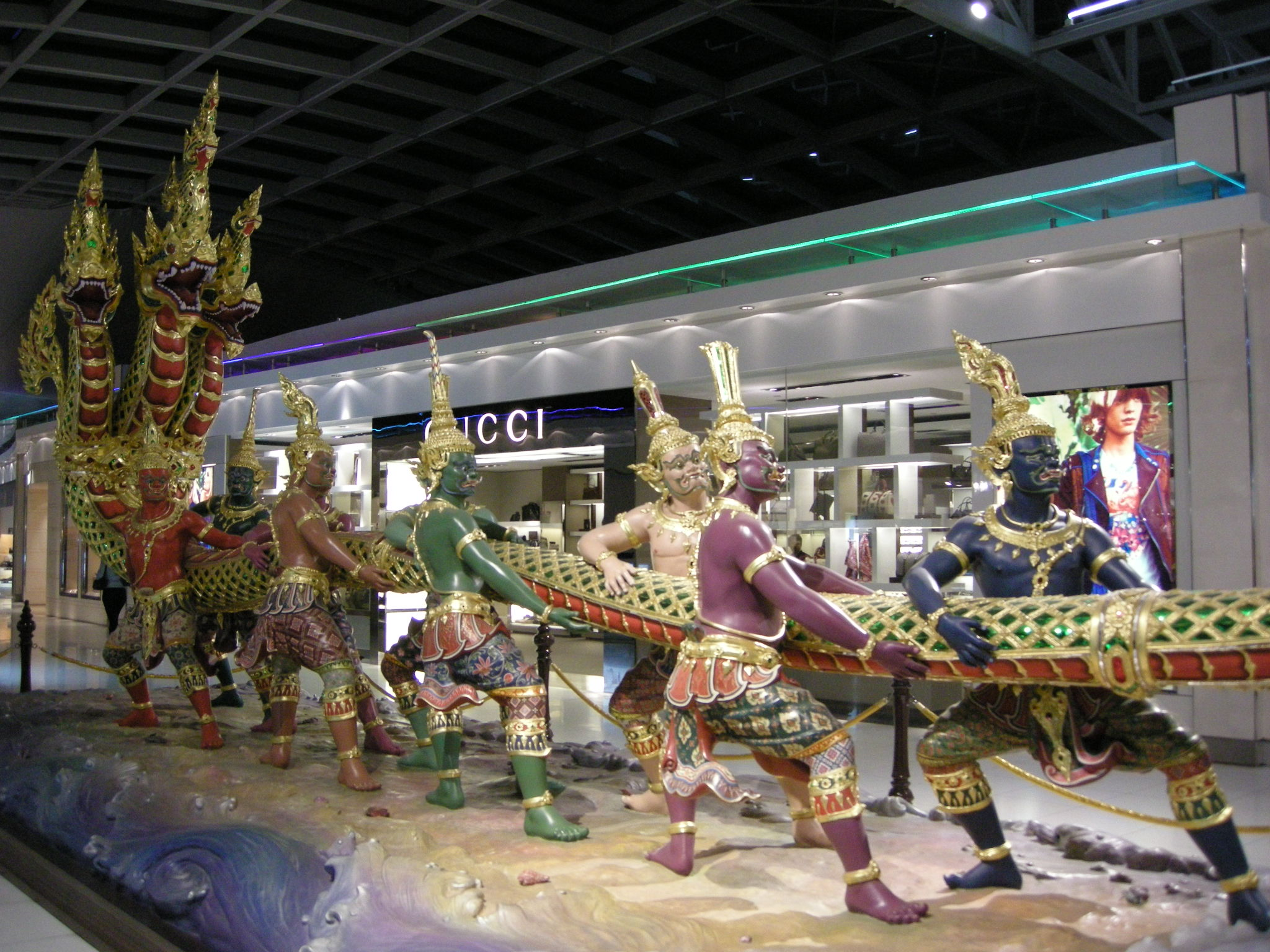 "The Churning of the Milk Ocean" - a mythological story adapted from Hinduism: the Asuras (demons) pulling at the head of Naga Vasuki.